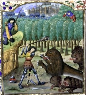 Hercules and the Nemean Lion Raoul Lefиvre, Histoires de Troyes Belgium, XVth century (B.N. Franзais 59, Fol. 137)